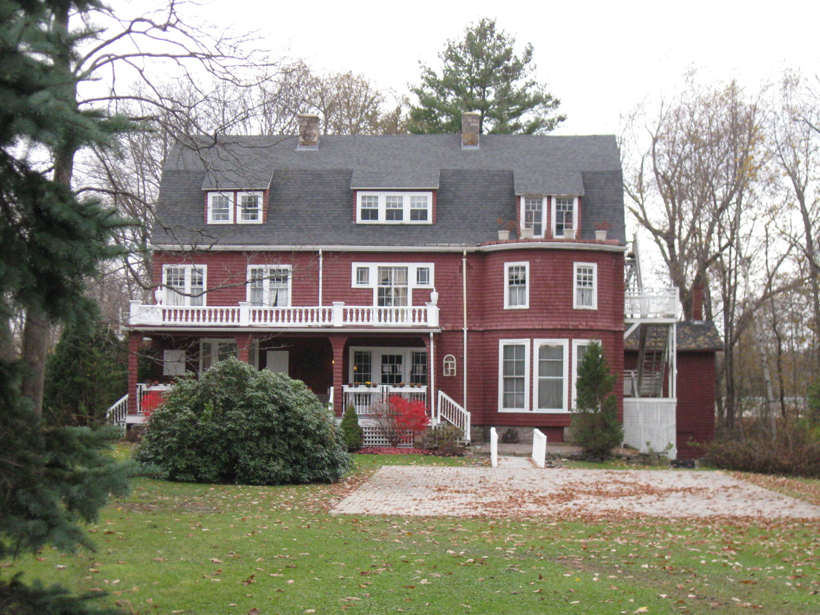 Camp Hammond, Yarmouth, Maine. Photo by Ken Gallager, Nov. 11, 2011.